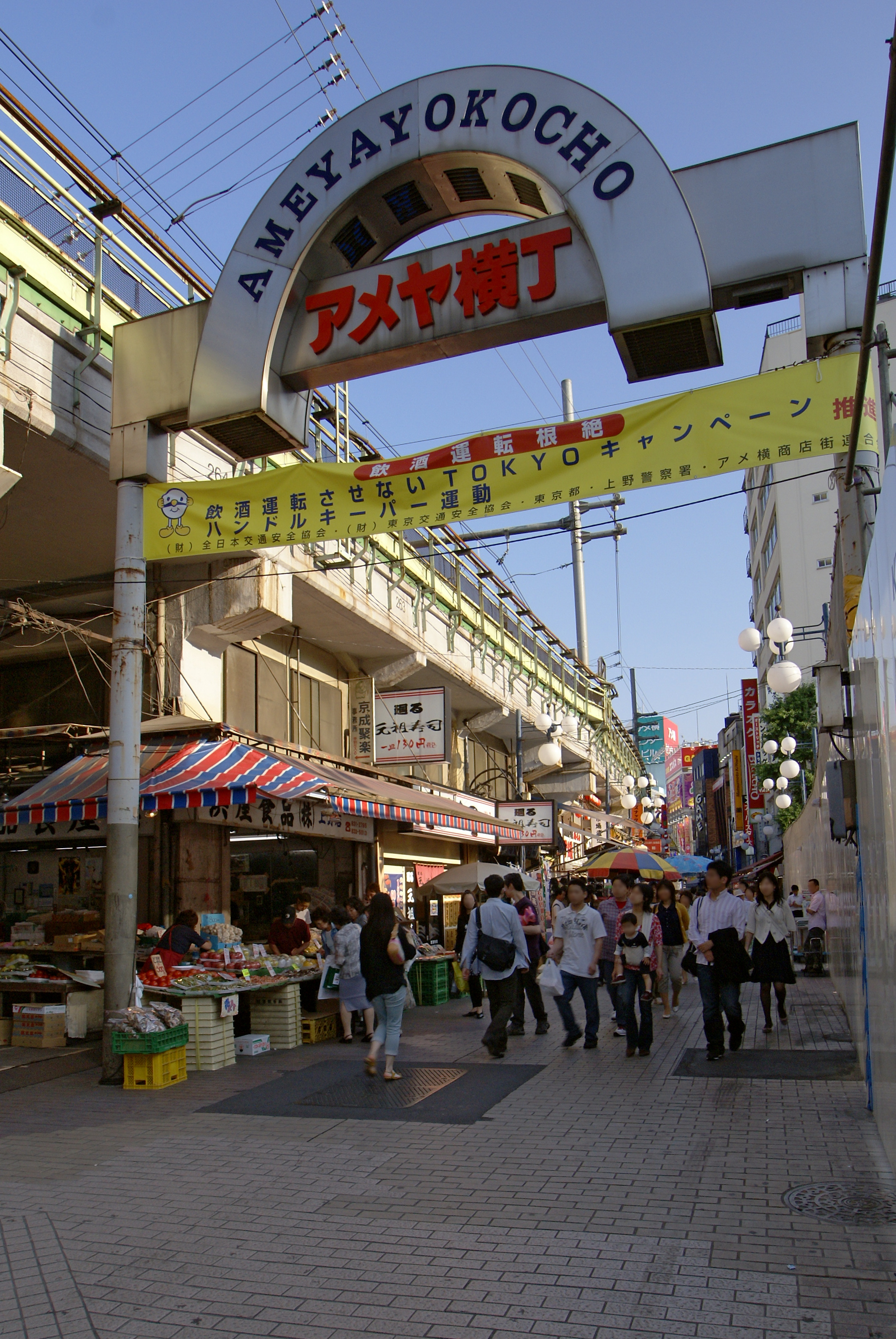 Ameya-yokocho in Taito-ku, Tokyo, Japan